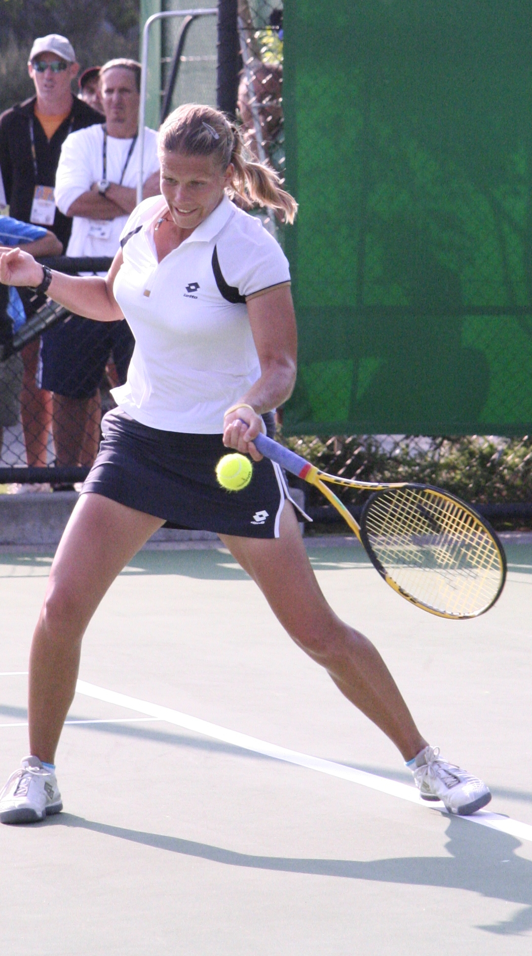 Melinda Czink at their first-round match of the 2007 Australian Open.